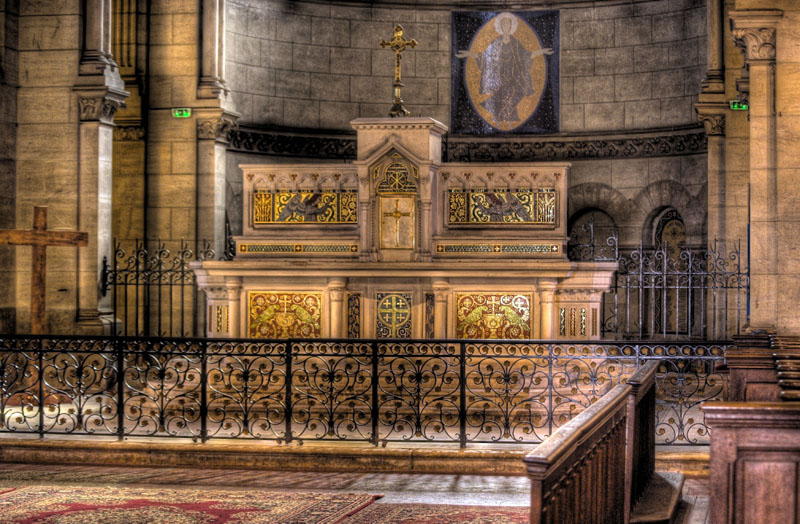 Saint-Étienne church of briare